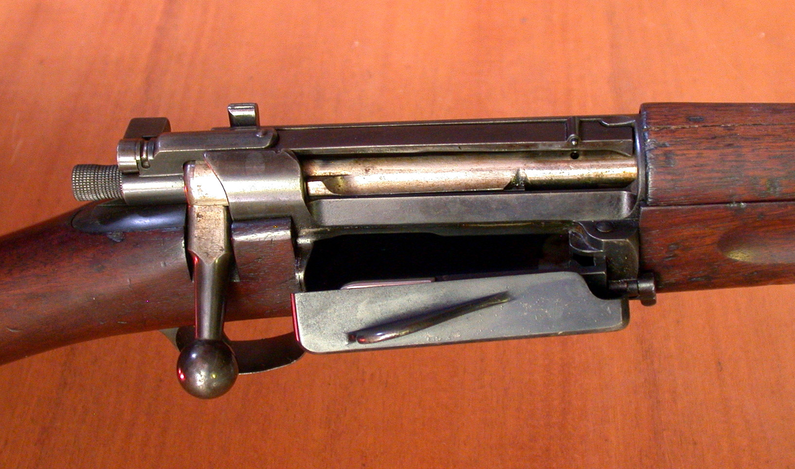 U.S. Model 1898 Krag rifle, loading gate open